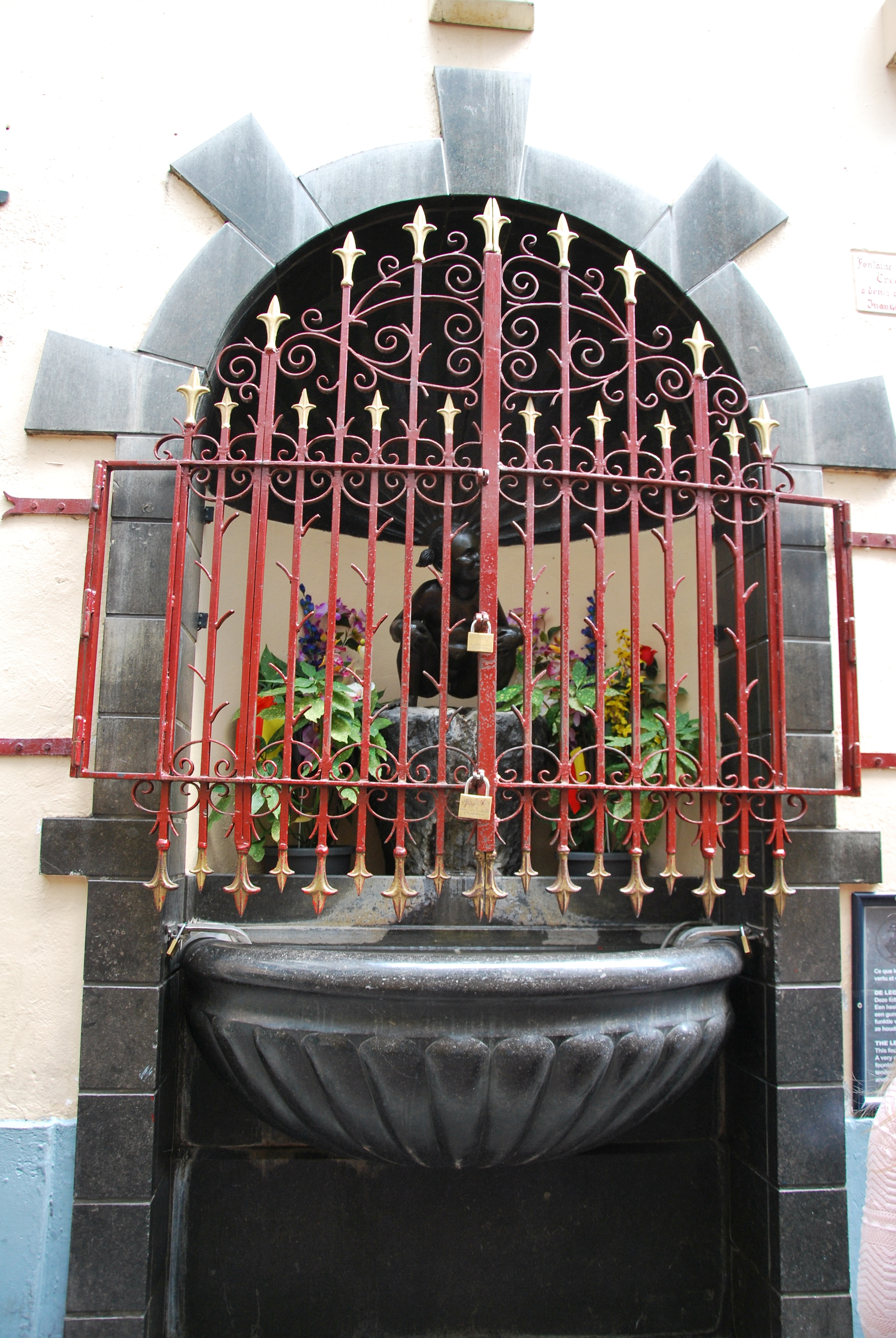 Janneken Pis in the cage in Brussels